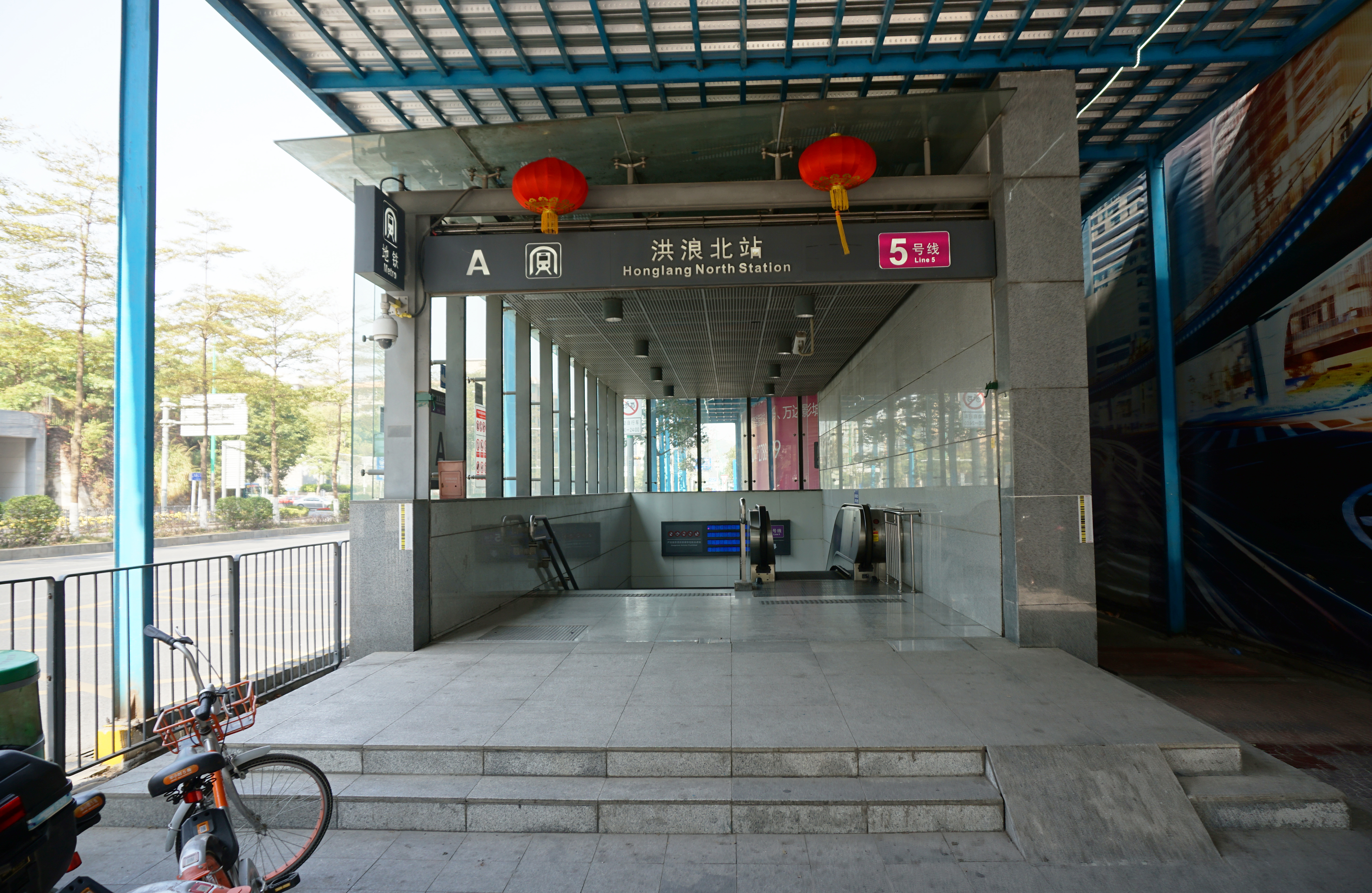 Honglang North Station in Shenzhen.